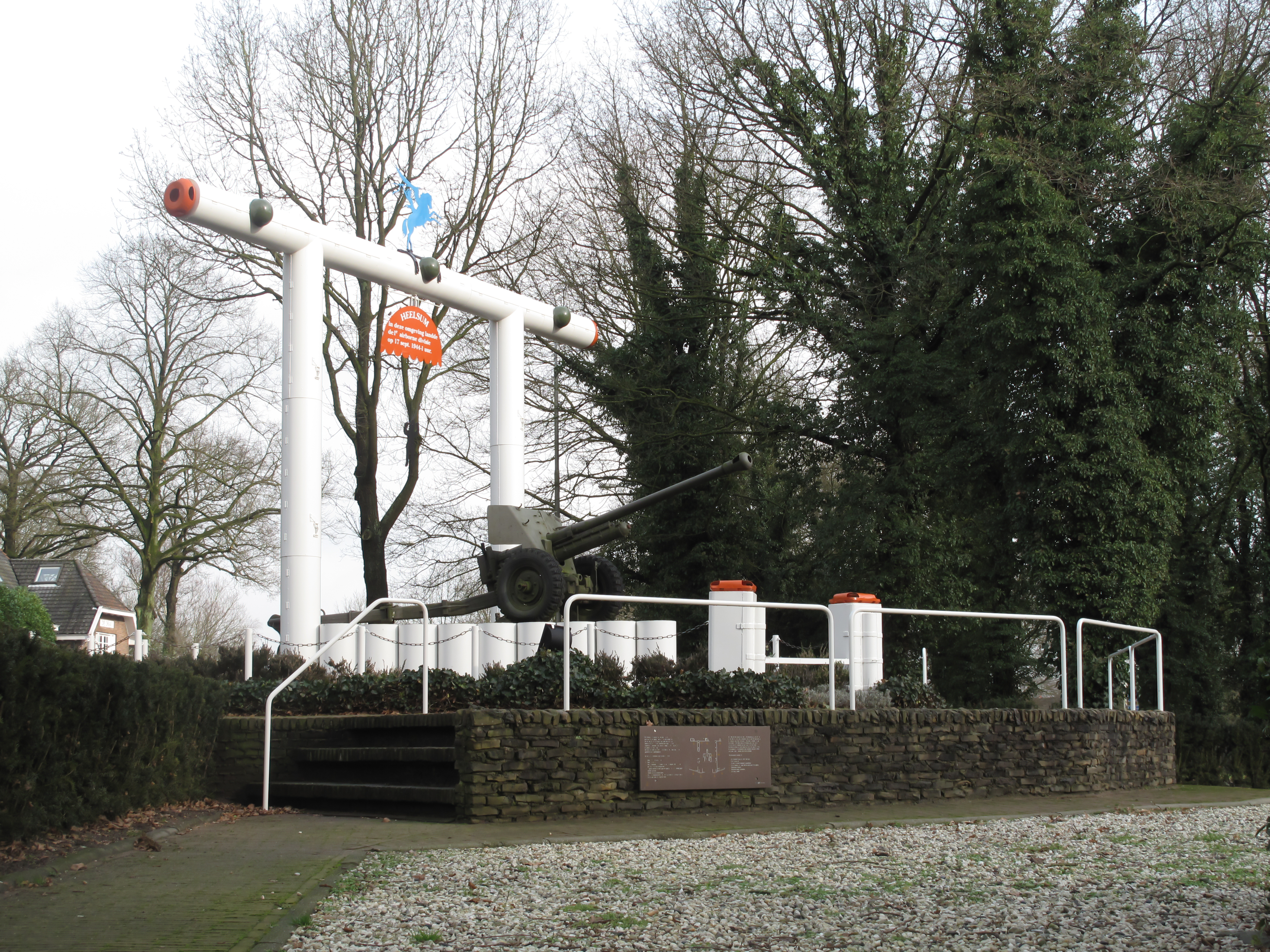 Heelsum, war monument